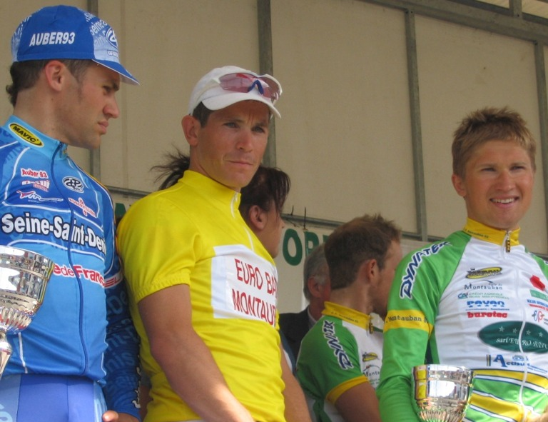 Tour du Tarn et Garonne 2008, podiums. Jean Mespoulède, Jean Luc Delpech and Gregorz Kwiatkowski.